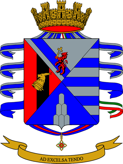 Coat of Arms of the 7° Alpini Regiment; Italian Army.